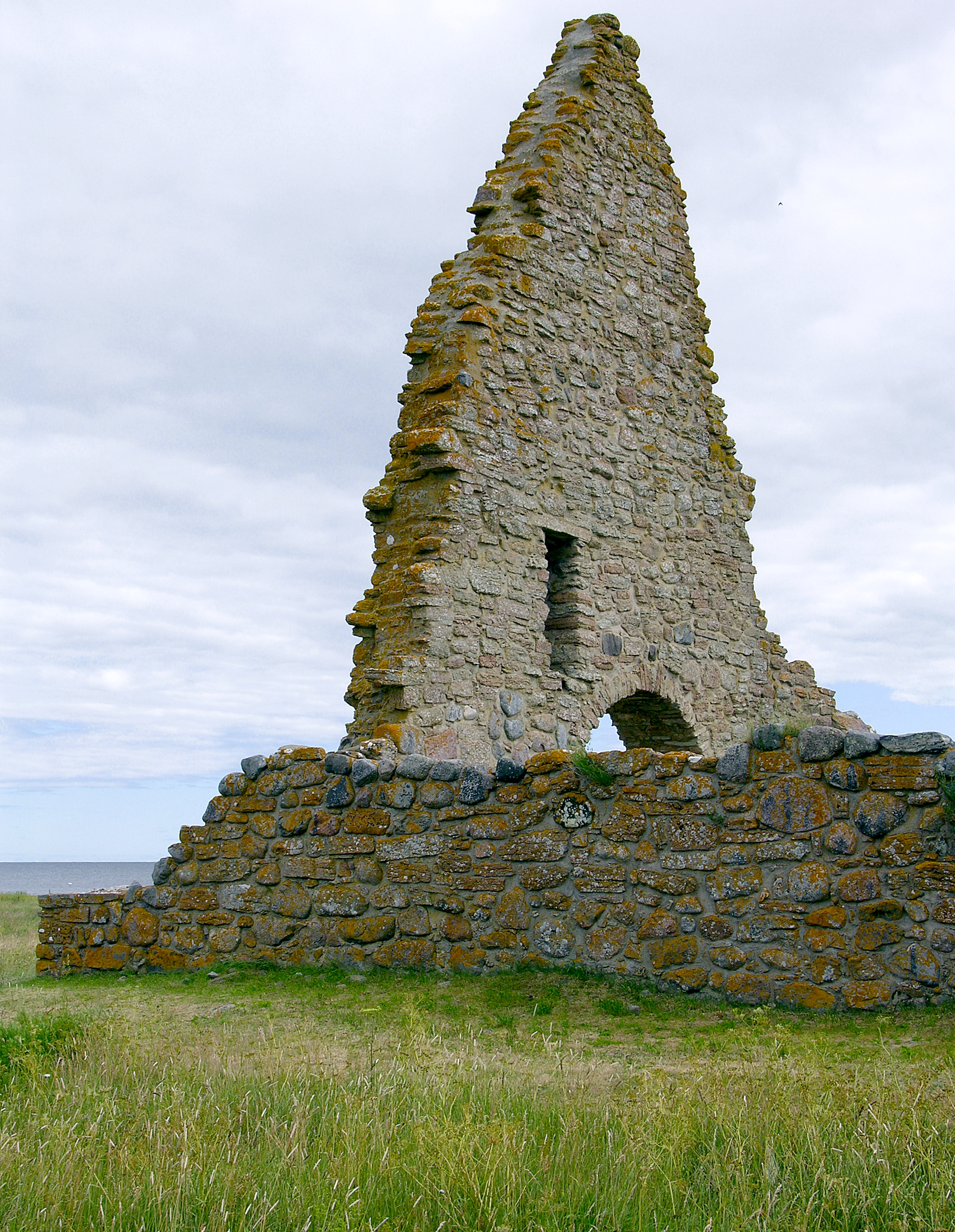 The ruins of the Chapel of Saint Birgitta (possibly Birgitta of Sweden or Brigid of Kildare) at Kapelludden on the east coast of Öland, built in the 13th century.